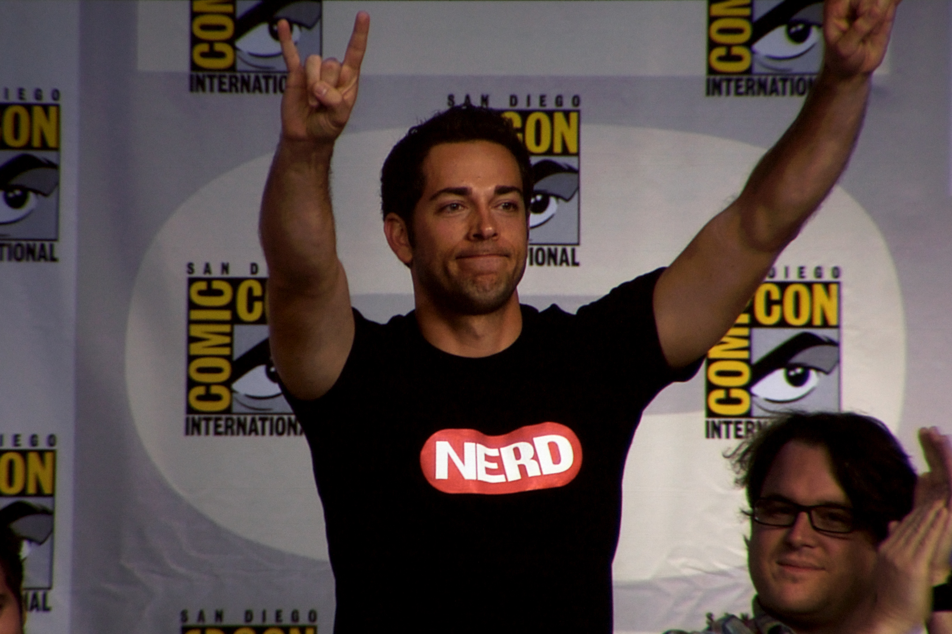 "Chuck" Panel. Actor Zachary Levi at San Diego 2010 Comic-Con International.